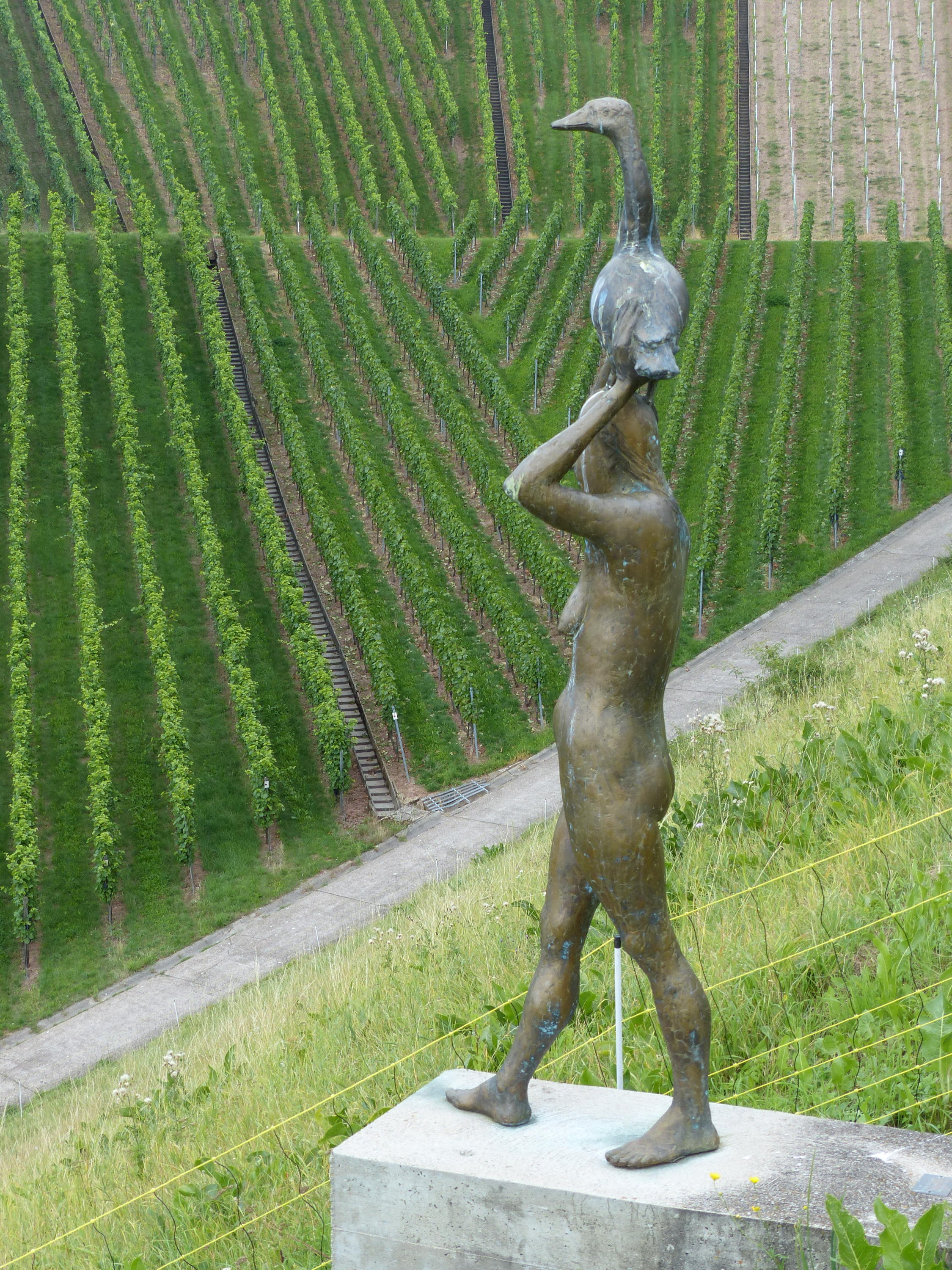 Sculpture trail in Winterbach-Strümpfelbach, Germany. "Frau mit Gans" by Karl-Ulrich Nuss, 1998